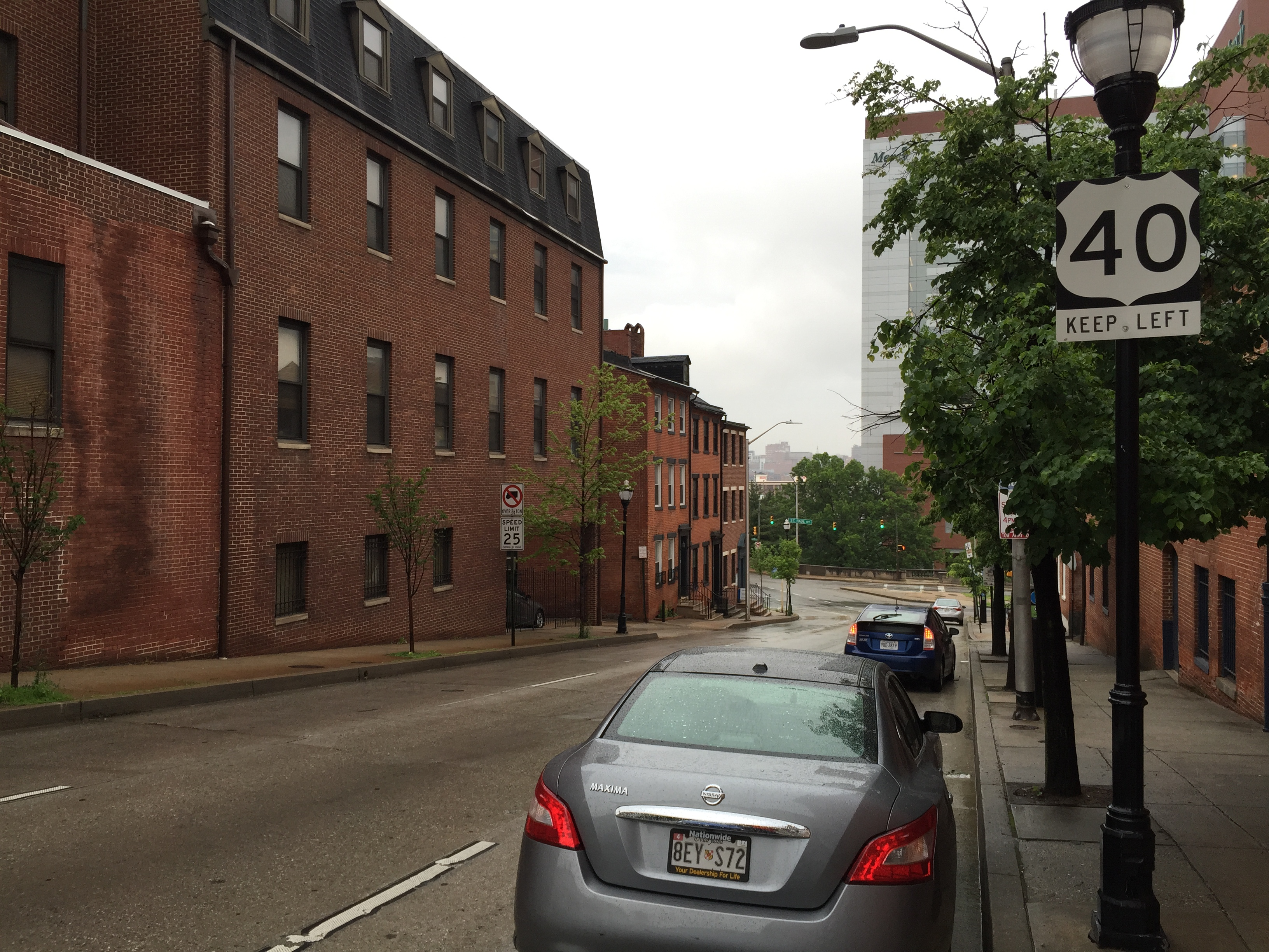 View east along U.S. Route 40 (Mulberry Street) near Charles Street in Baltimore City, Maryland